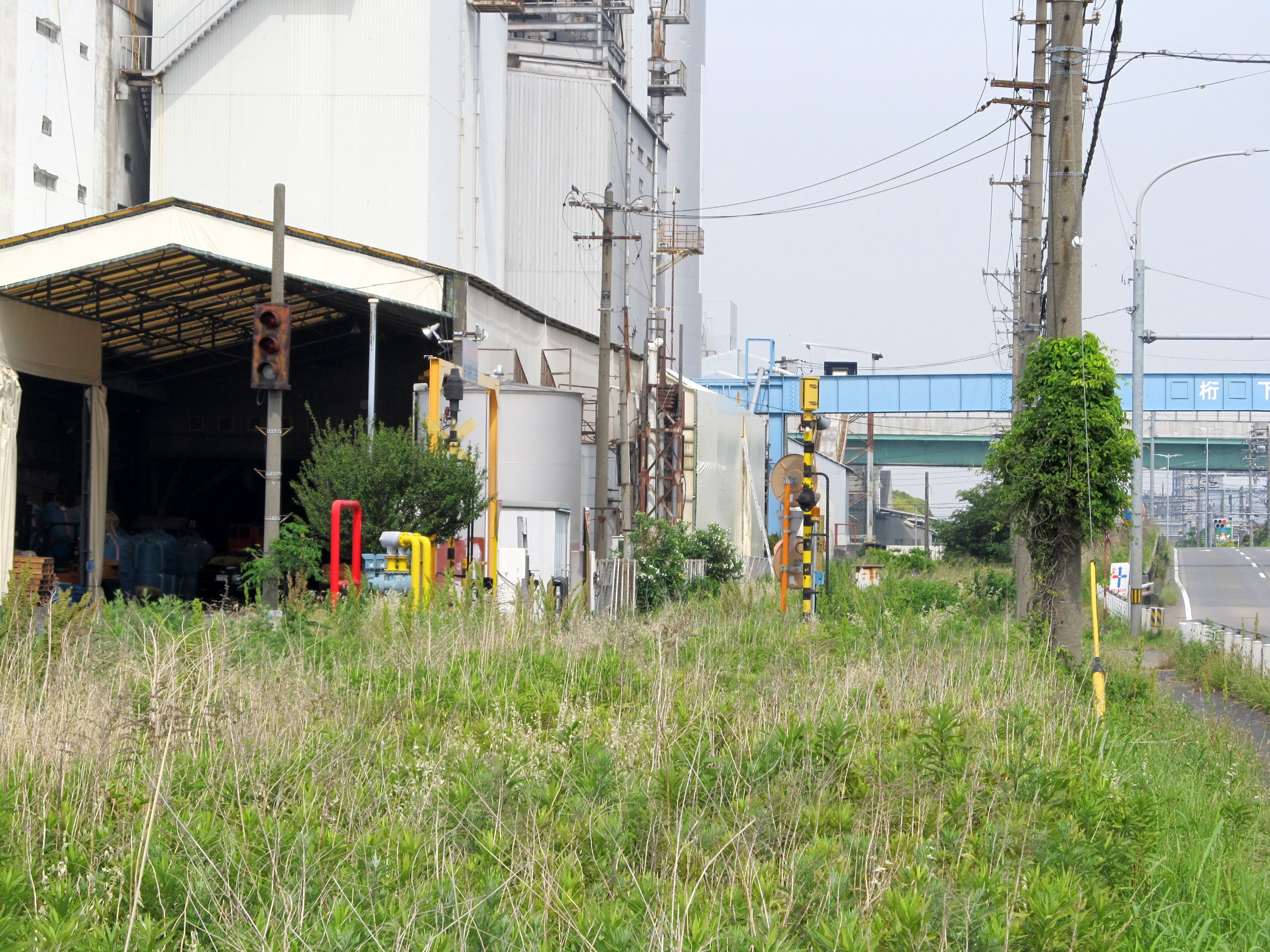 Nagoya Rinkai Railway Shiomichō Line